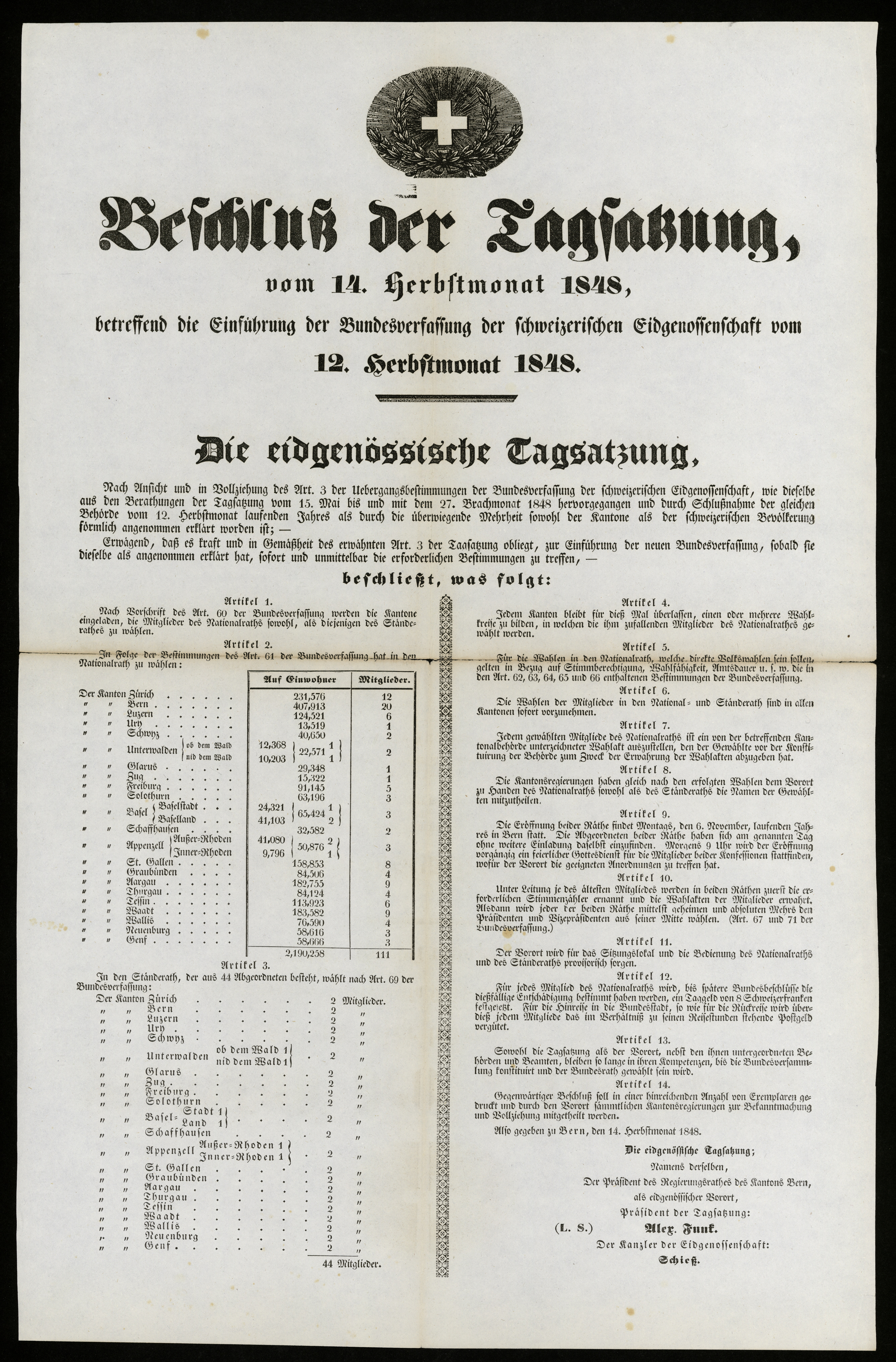 First election of the Swiss national council 1848